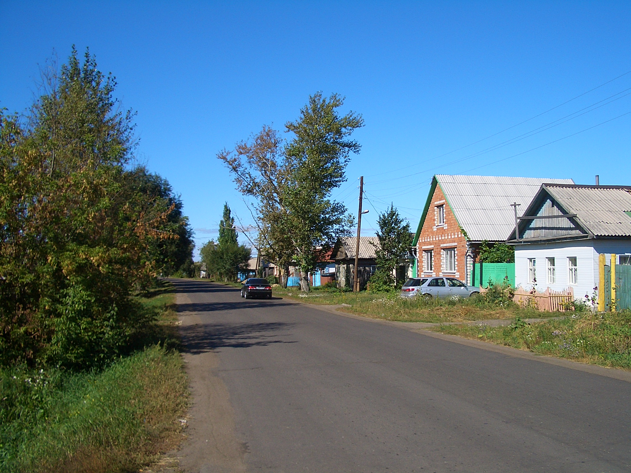 A typical street in Cherlak